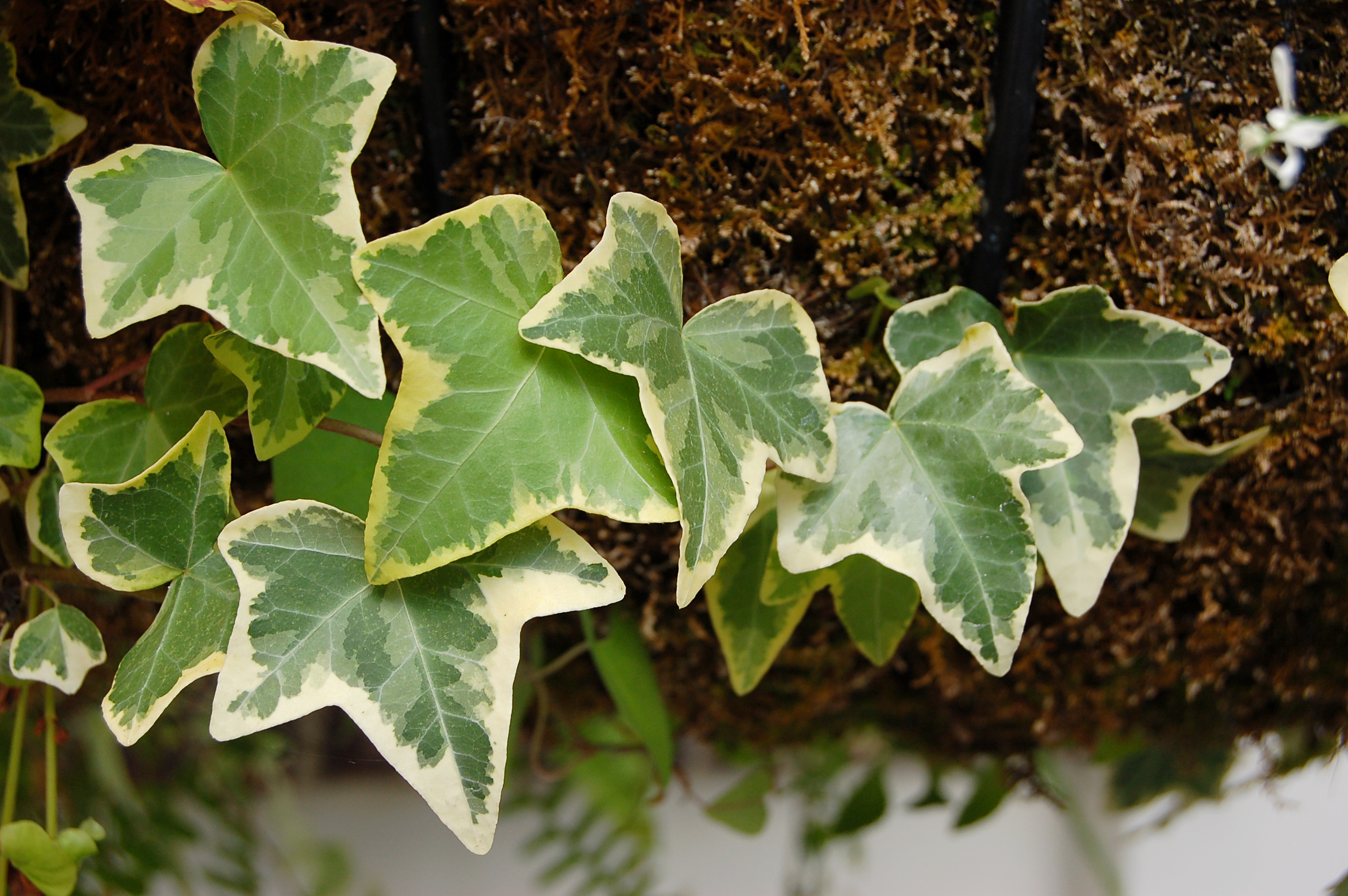 A picture of a Hedera helix en plant. Photo taken at the Chanticleer Garden where it was identified.